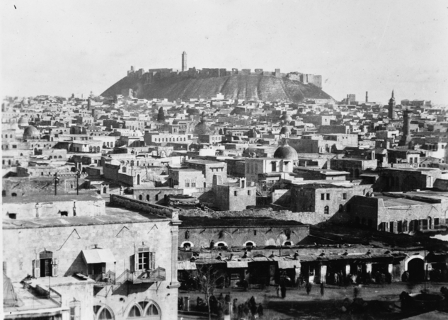 Aleppo c1918